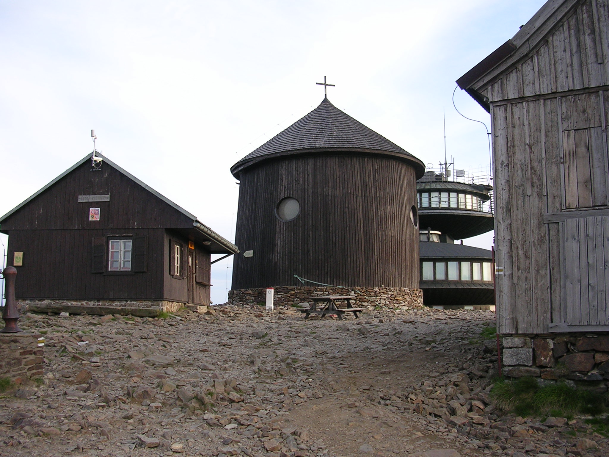 Sněžka, Karkonosze Mountains, Poland and the Czech Republic.